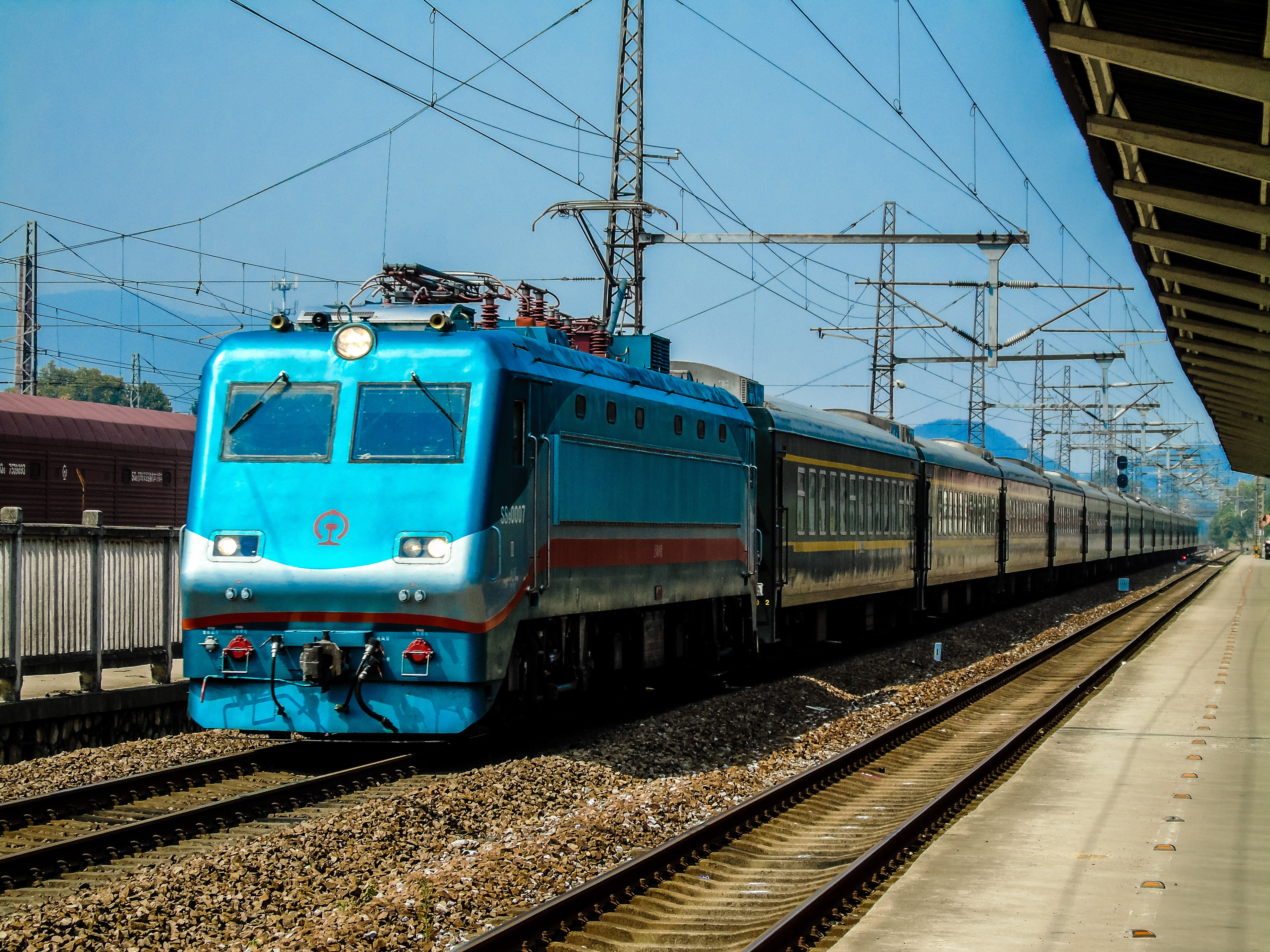 SS9-0007 Hauls K849 at Nanjingdong Railway Station